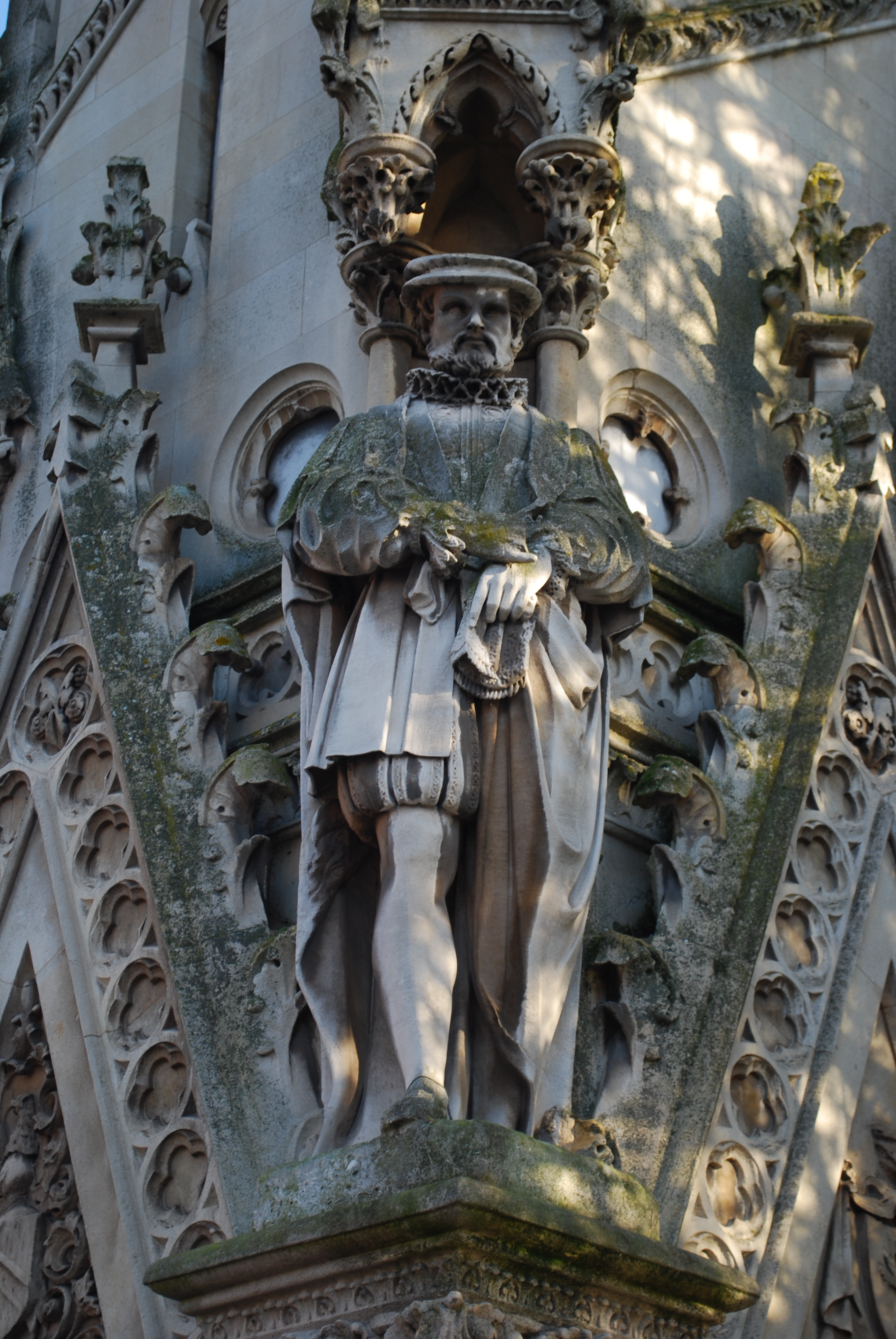 A statue of William Wigston on the Haymarket Memorial Clock Tower in Leicester, England.